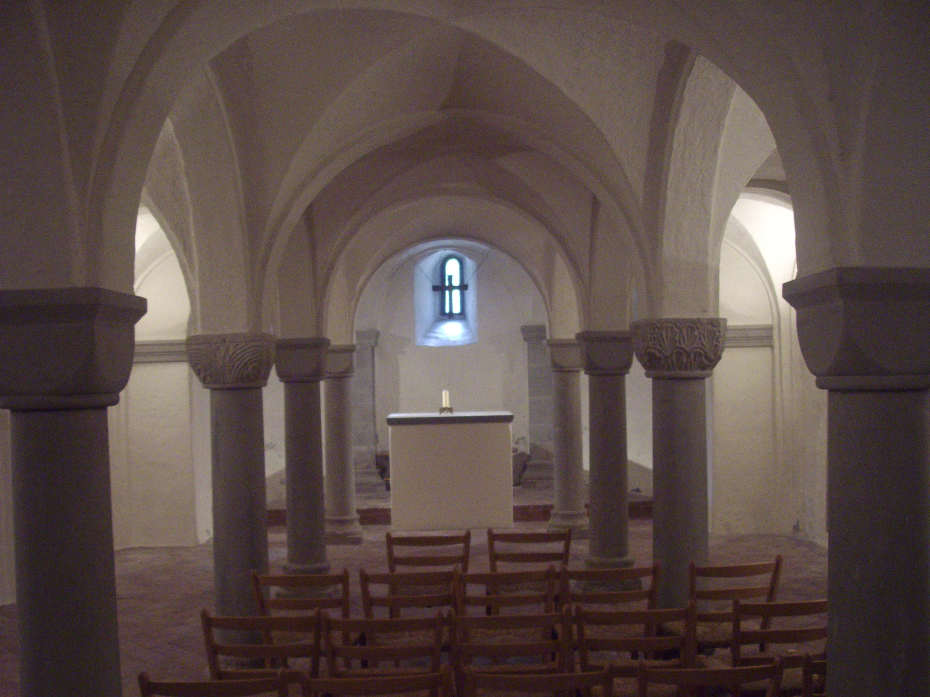 Krypta der Klosterkirche Schänis